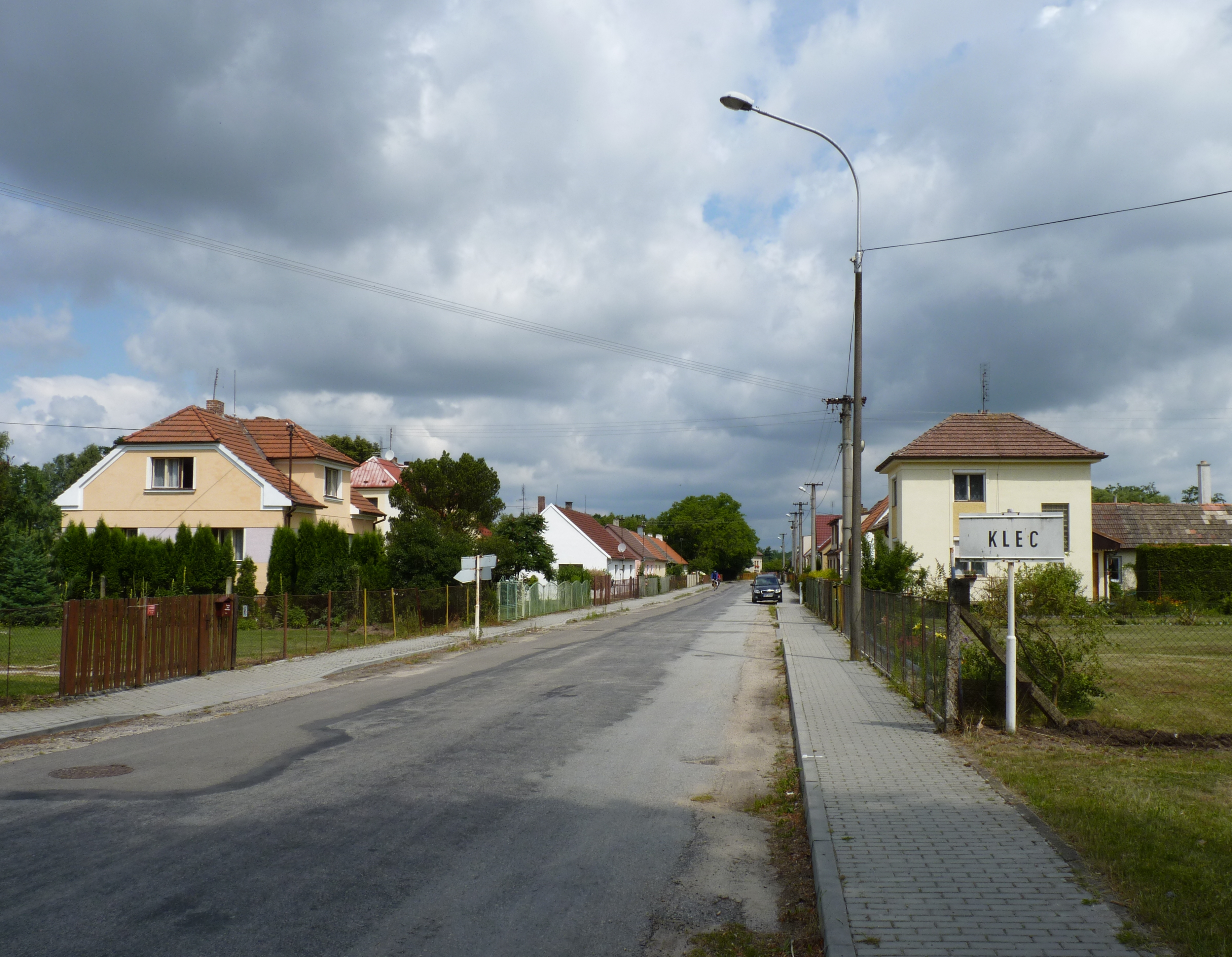 Klec. Jindřichův Hradec District, South Bohemian Region, Czech Republic